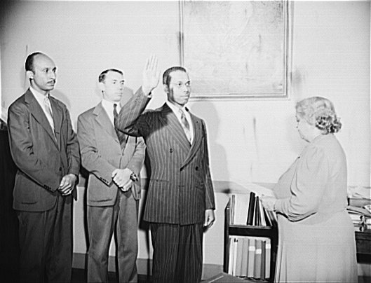 Washington, D.C. The distinction of being the first Negro to become a member of the Trial Bureau of the Department of Justice goes to Martin A. Martin of Danville, Virginia, who was sworn in on May 31, 1943. Mrs. Nellie G. Plumley, appointment clerk, is administering the oath. In the background is Attorney Oliver Hill of Richmond, Virginia and Frank Coleman, Special Assistant to Attorney-General Biddle. Mr. Martin also has the rank of Special Assistant.